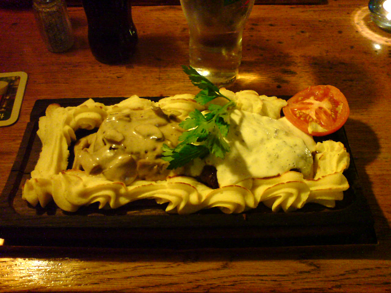 Planked steak